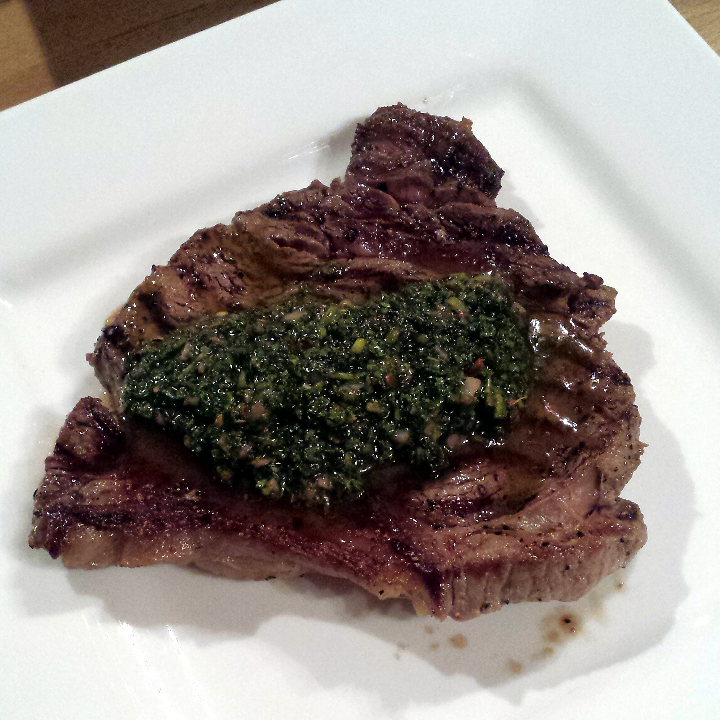 Steak with Chimichurri Sauce Chimichurri sauce preparation